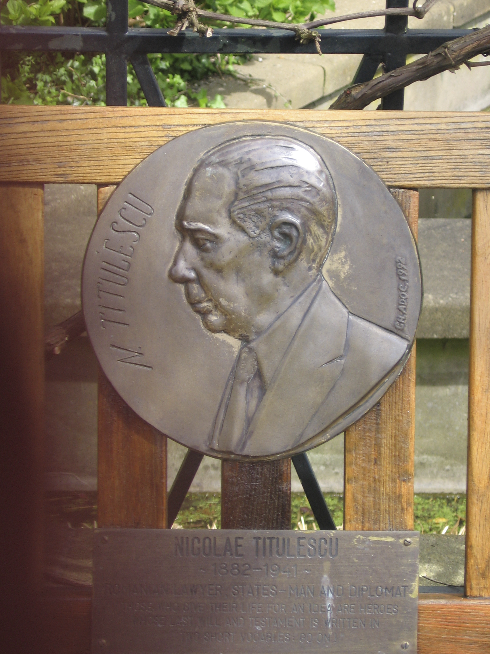 Commemorative bench in Peace Palace Garden for Nicolae Titulescu, Romanian diplomat and twice President of the General Assembly of the League of Nations (1930–32). Gift from Romenia.